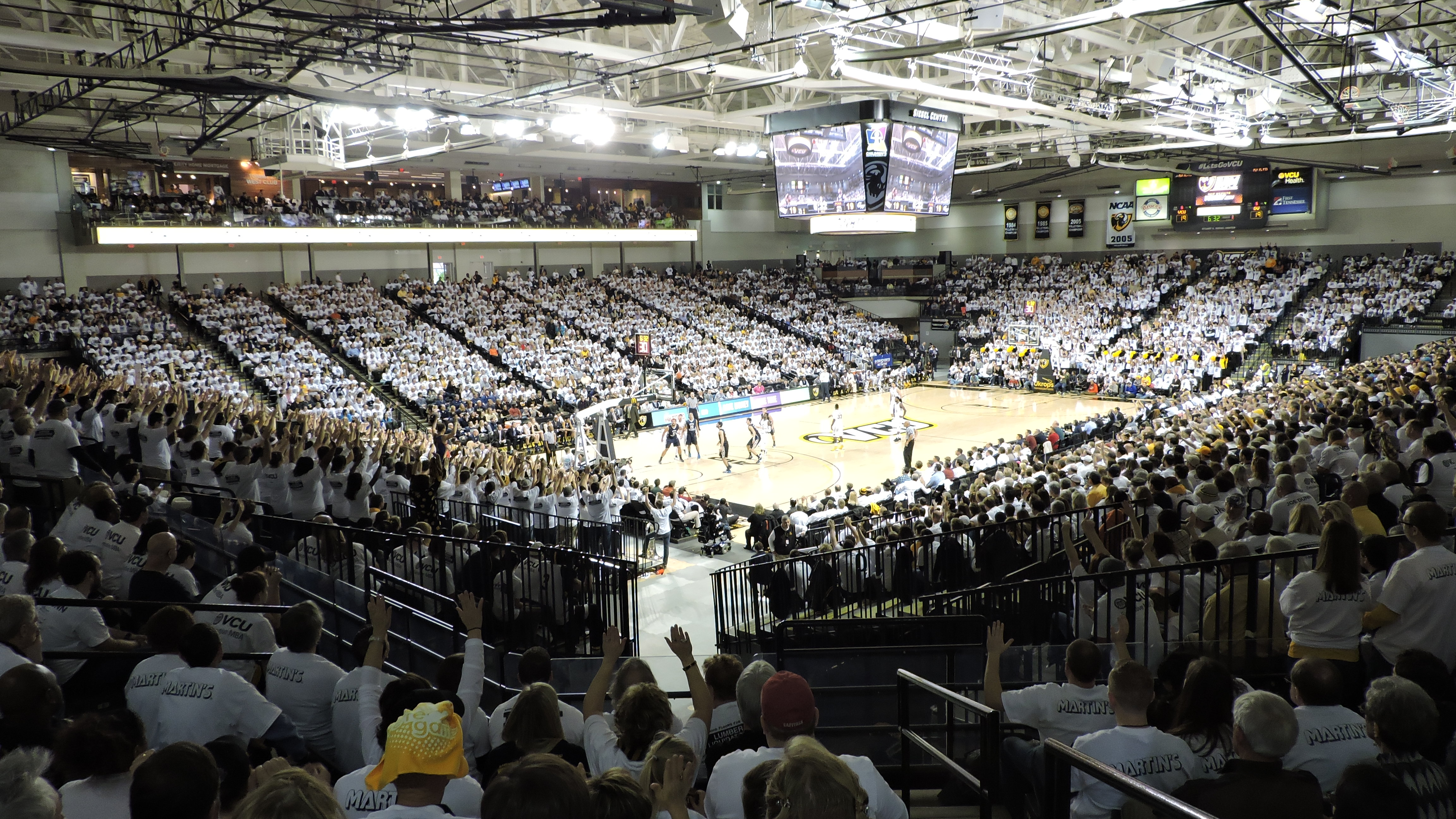 Interior look at the Siegel Center during the Feb. 6 2016 contest vs GW.